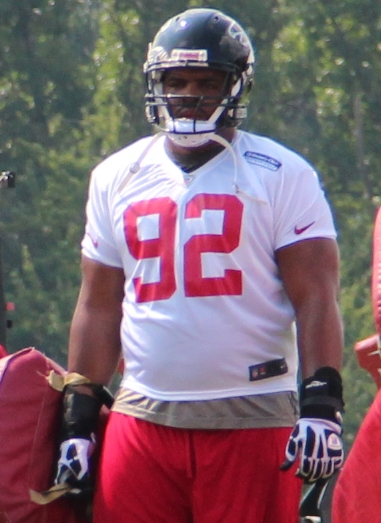 Travian Robertson at Falcons training camp, 2013